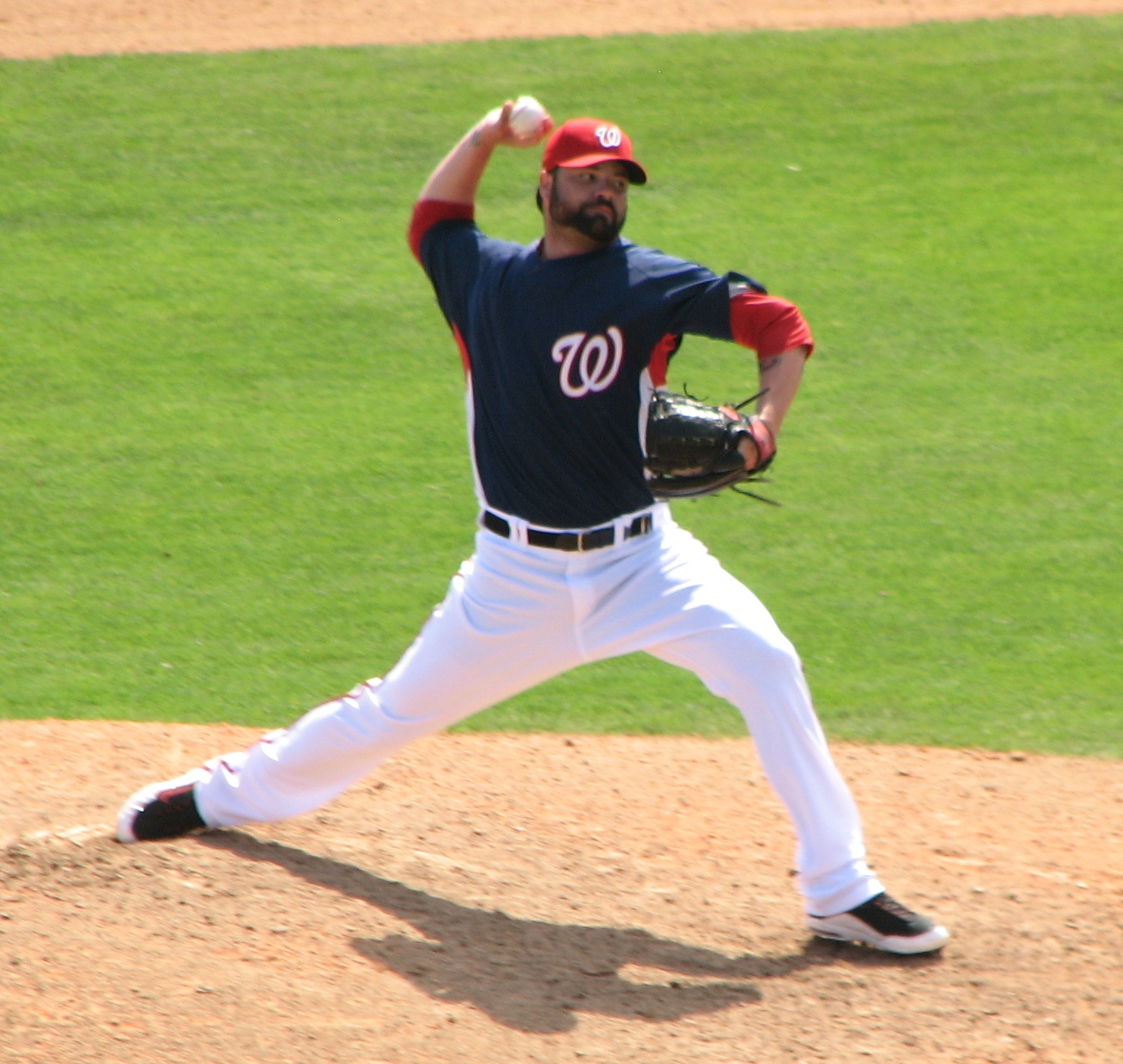 Picture of Brian Bruney.